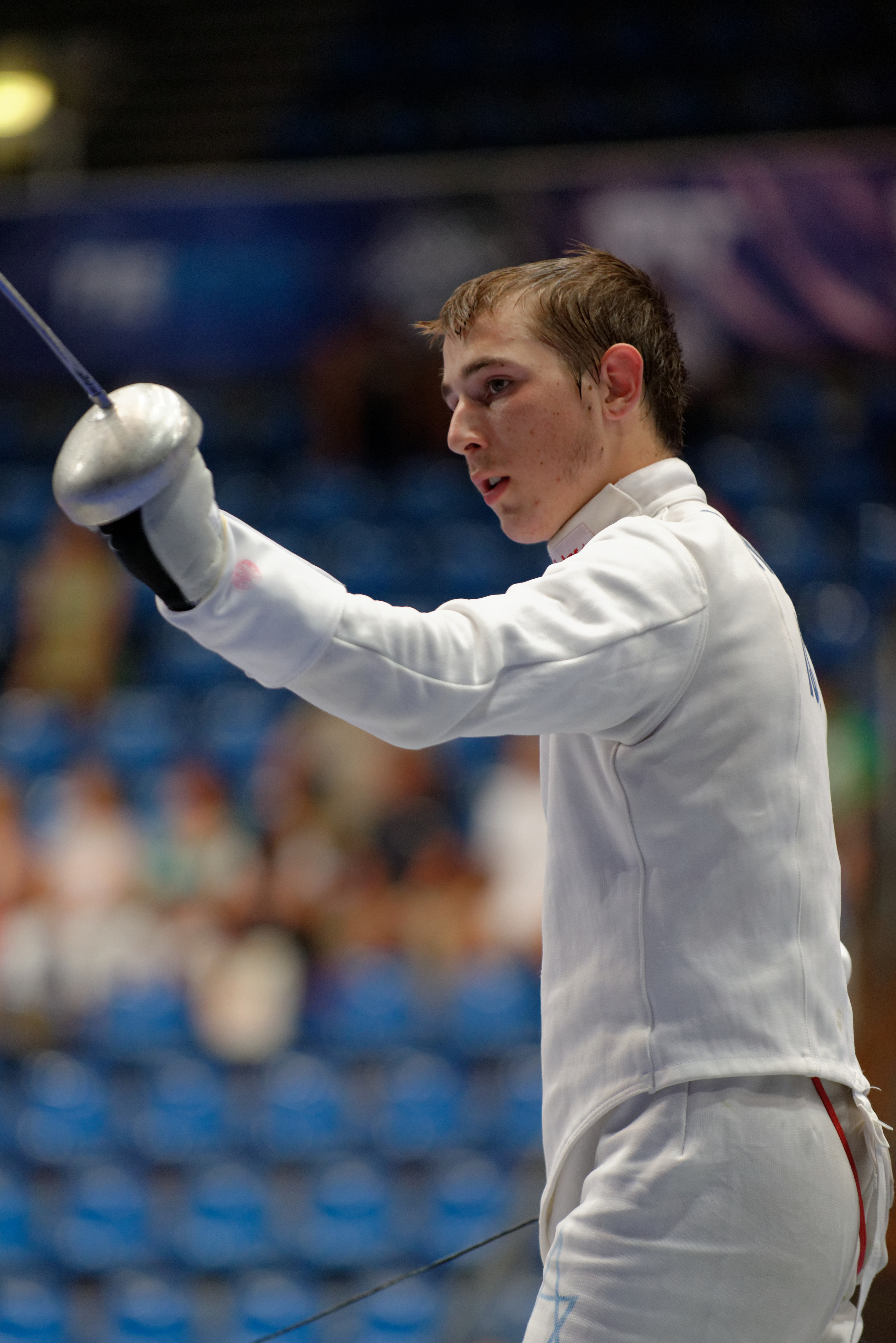 Israel's Yuval Shalom Freilich salutes during his bout against Ivan Trevejo from France in the table of 64 of the men's épée event in the 2013 World Fencing Championships 2013 at Syma Hall in Budapest, 8 August 2013.